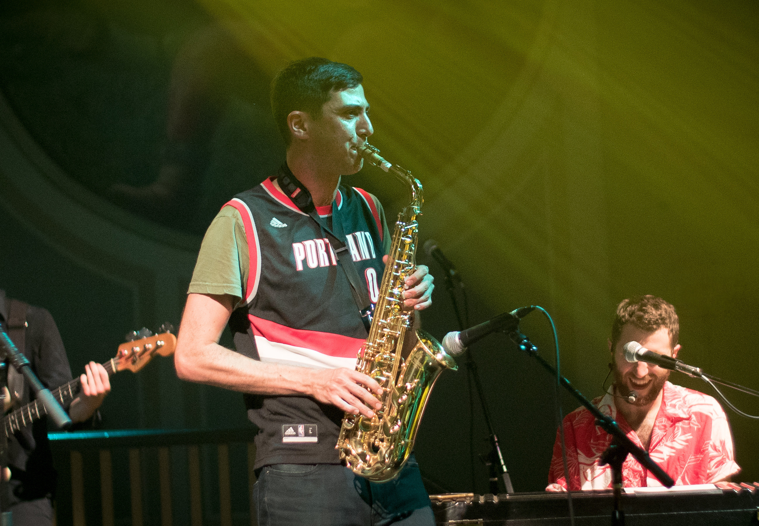 Joey Dosik on saxophone performing with Vulfpeck at the Crystal Ballroom in Portland, Oregon, on May 26, 2017.[1]